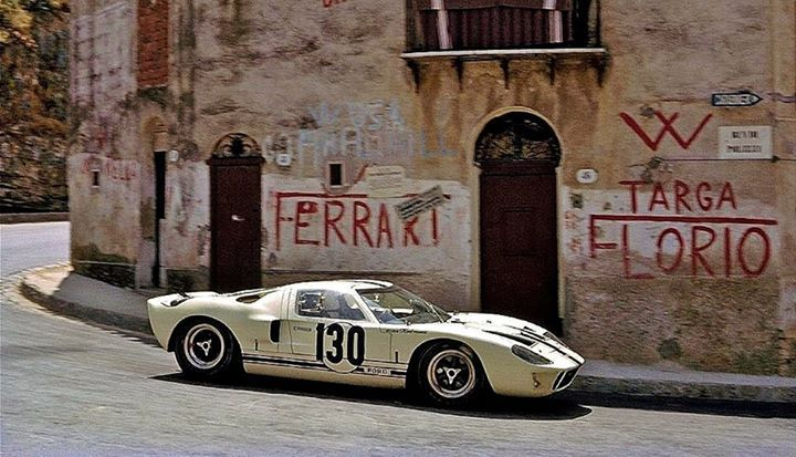 Henri Greder+Jean-Michel Giorgi (of Ford France) in Ford GT40 at Targa Florio on 14 May 1967, ended in 5th place.[1]